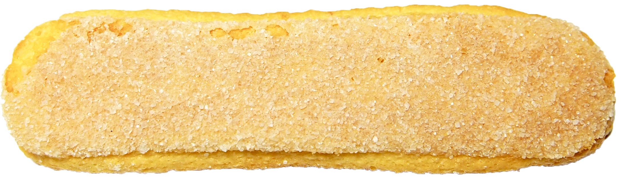 Cookies Italian Ladyfinger by Vicenzovo.